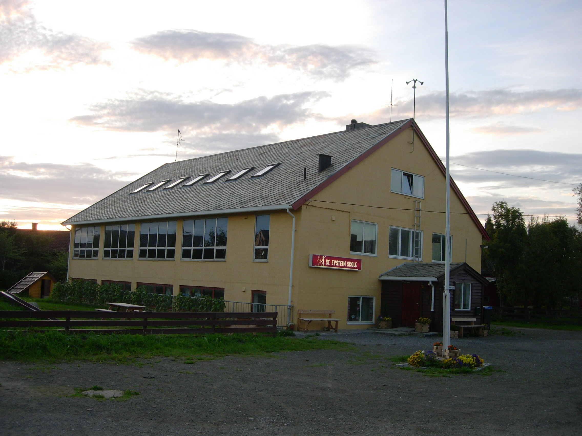 St. Eystein catholic school in Bodø